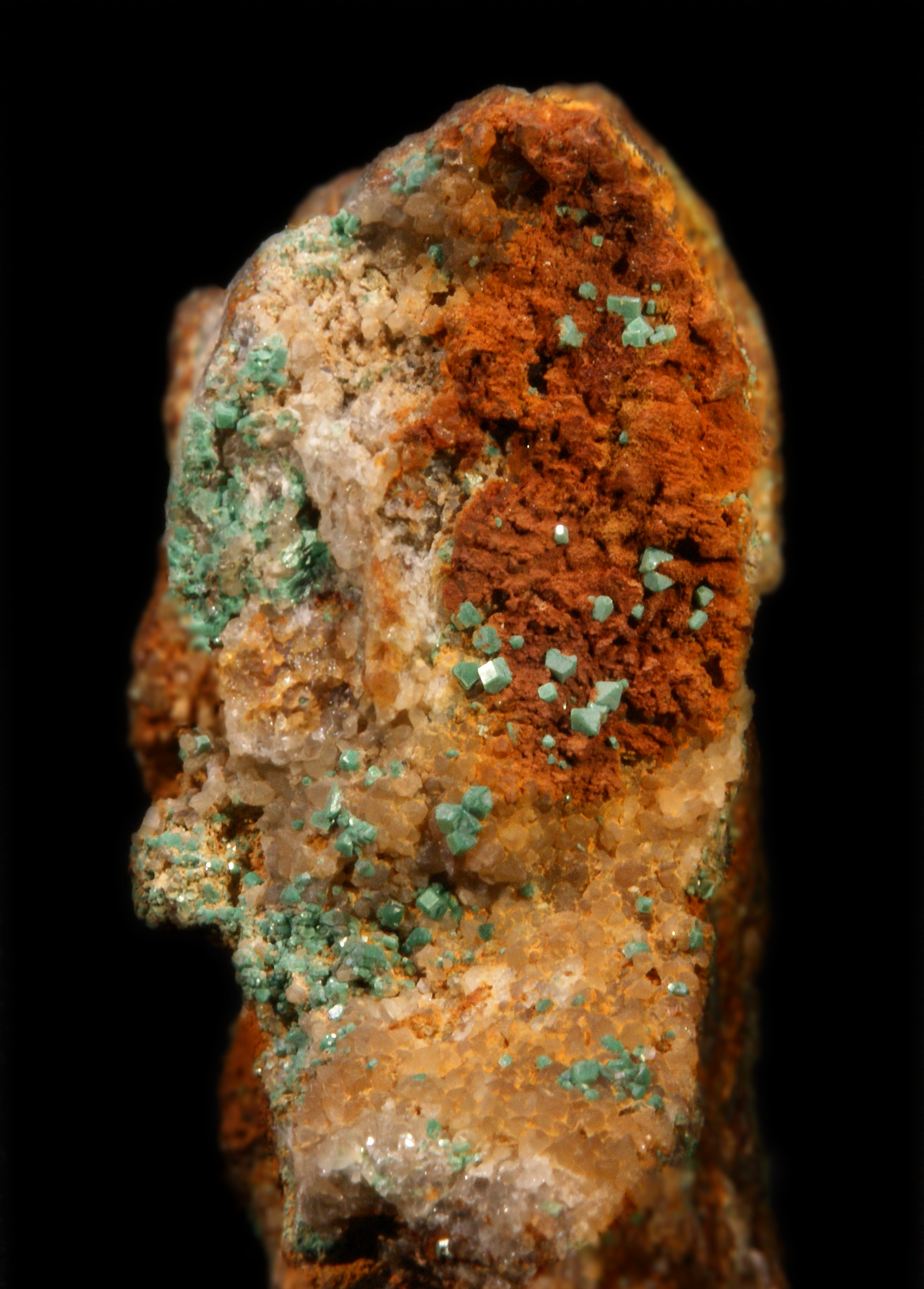 Torbernite - Le Vouedec (Ouadec), Berné, Le Faouët, Morbihan, France (5.3x3cm)